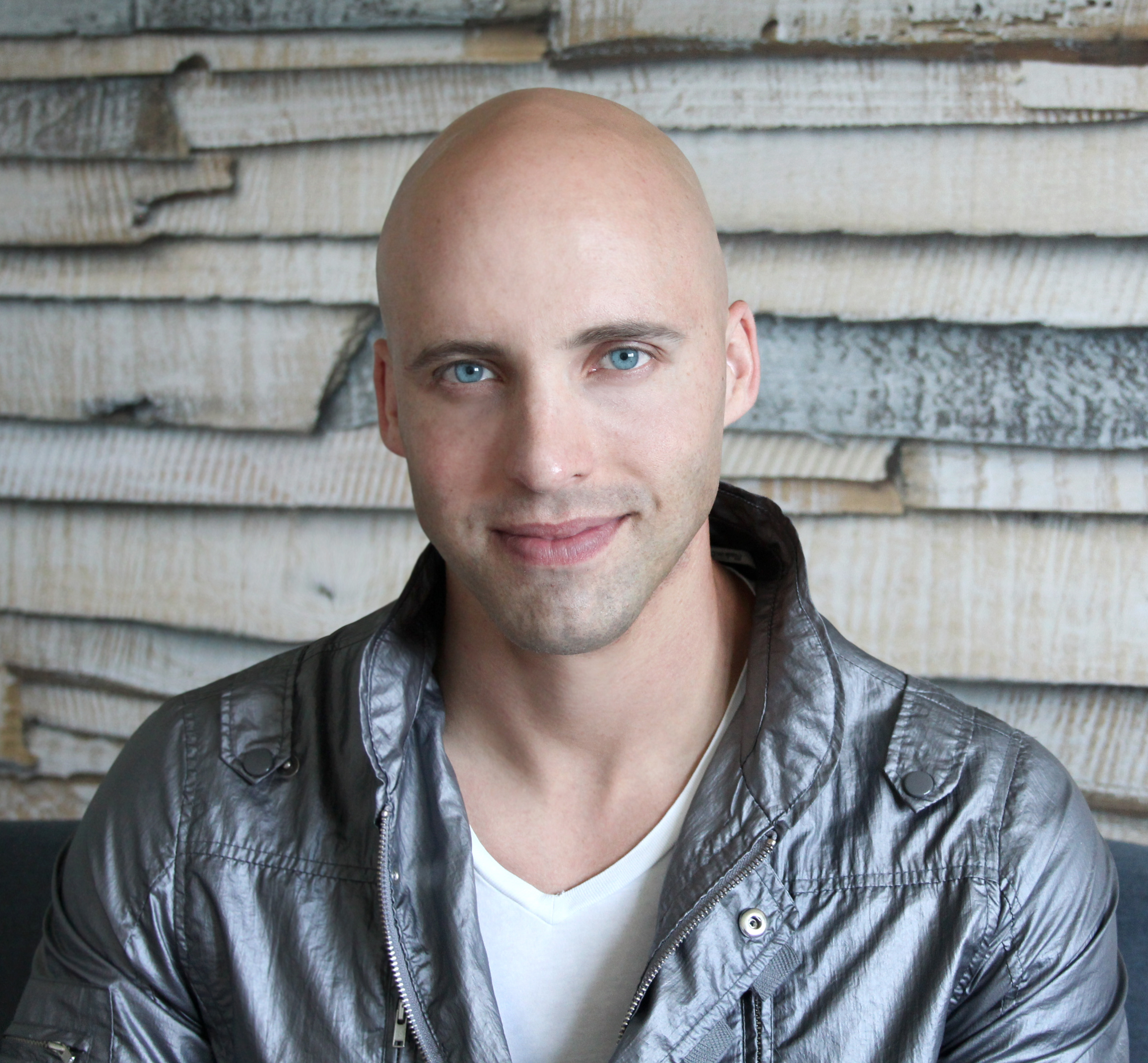 Head shot picture of David Packouz